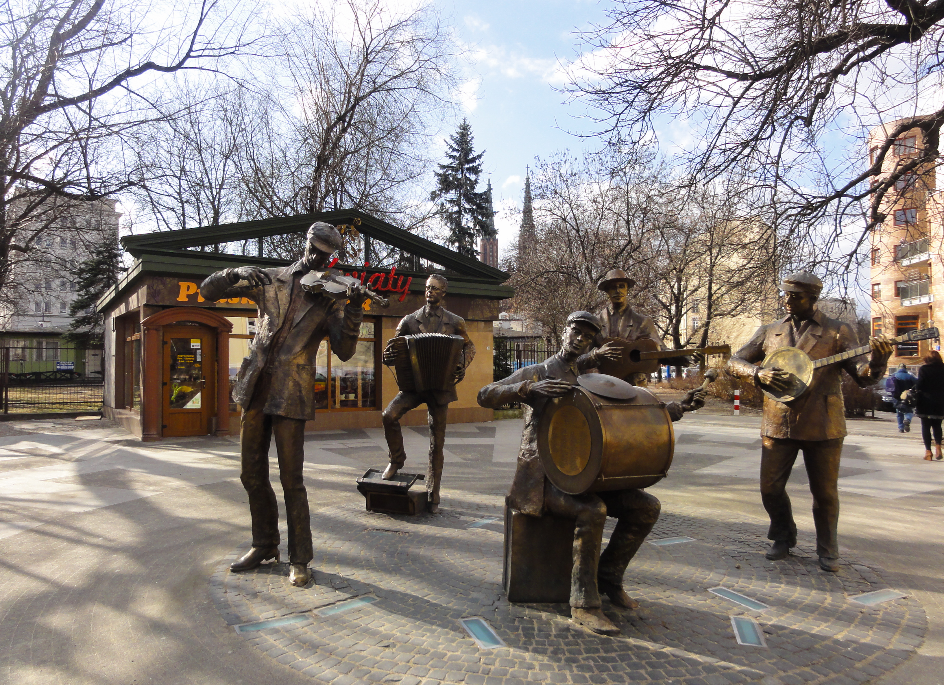 Unusual lifesize group sculpture of street musicians in Praga district in Warsaw